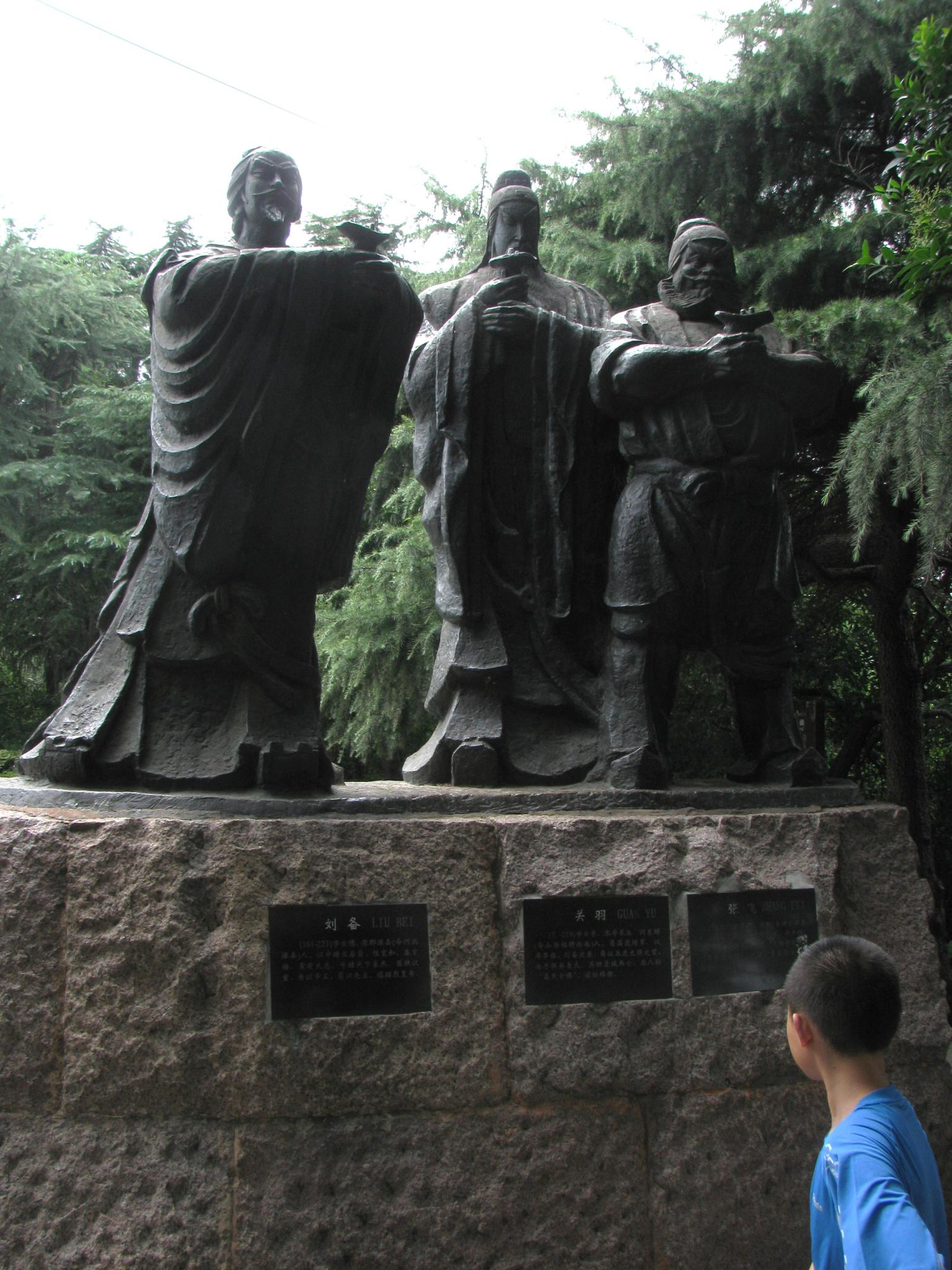 Statues of Liu Bei, Guan Yu and Zhang Fei - the three sworn brothers in the classical novel Romance of the Three Kingdoms who founded Shu Han during the Three Kingdoms period of China